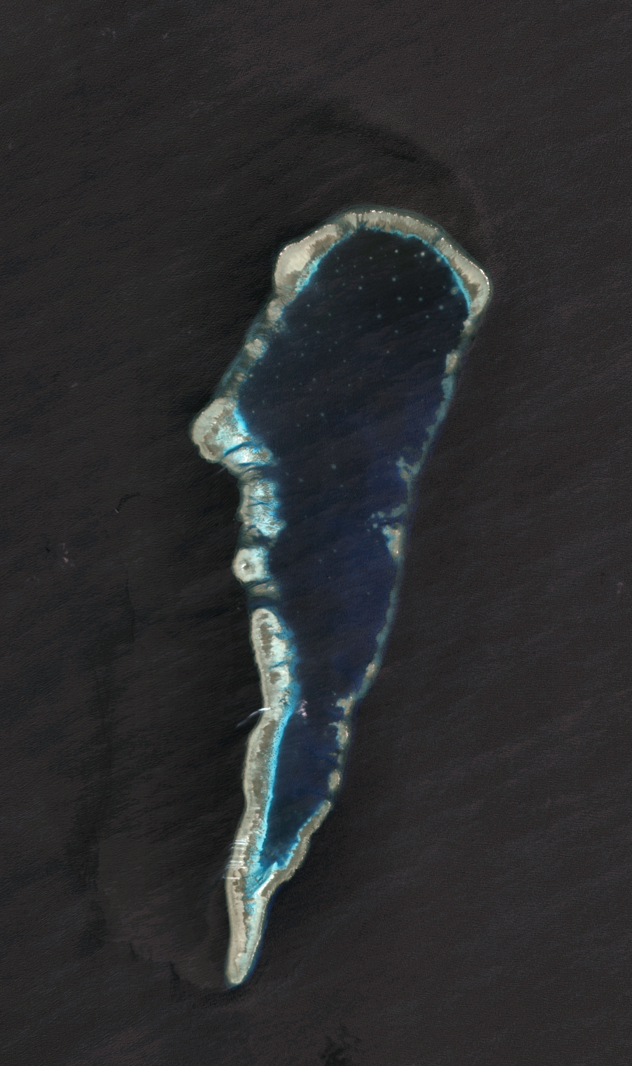 Composite "true color" multispectral satellite image of Second Thomas Shoal, Spratly Islands. Other names: Ayungin, Ren'ai Jiao, Bãi Cỏ Mây, Banc Thomas Deuxième. NASA Landsat 8 OLI bands used were 4 (red), 3 (green), 2 (blue). Pan-sharpened with band 8. Manual color balance. Projection: UTM (zone 50), WGS84. Imagery courtesy NASA/USGS.